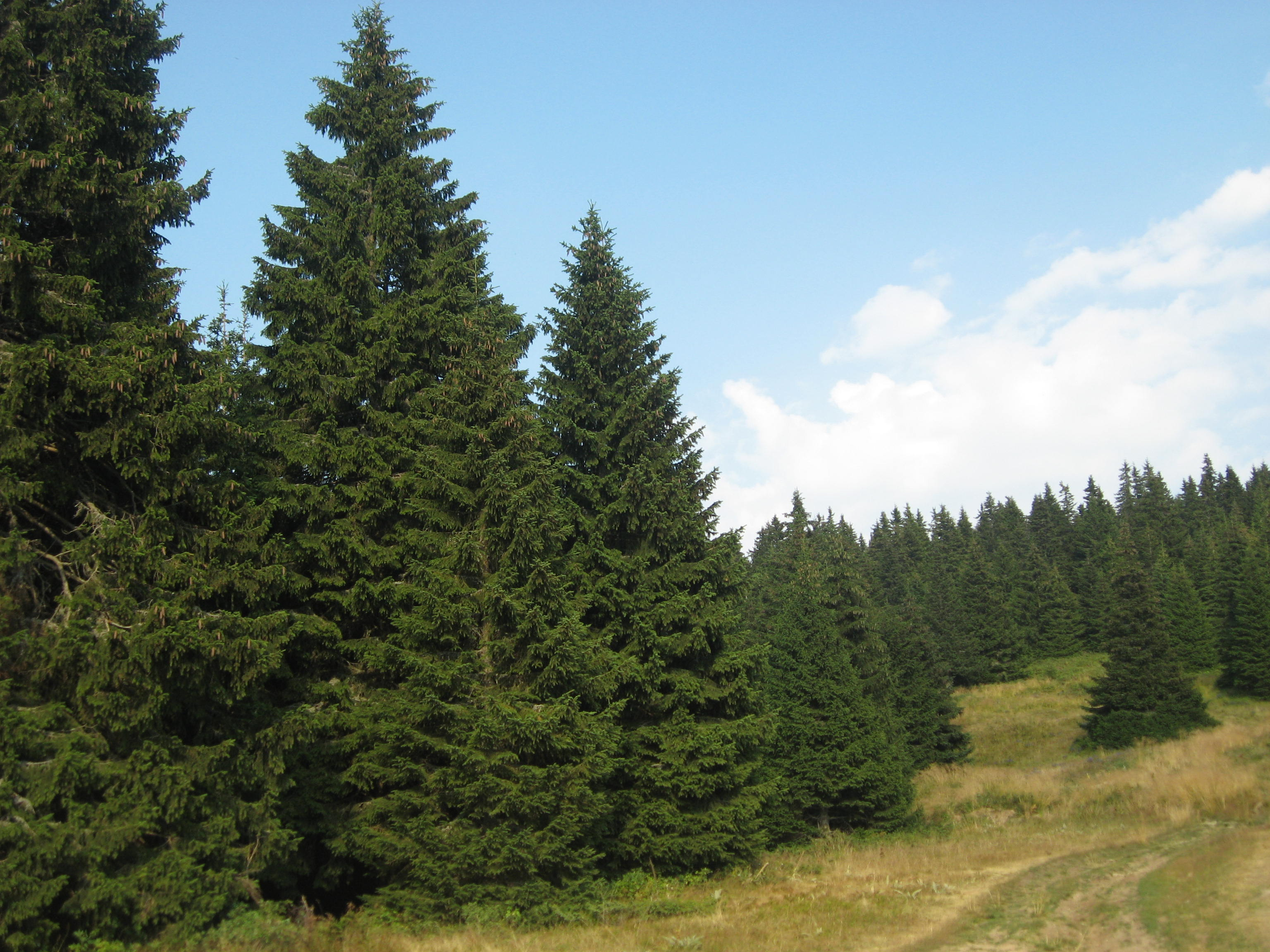 Slopes of Kopaonik with spruce (Picea abies) trees.